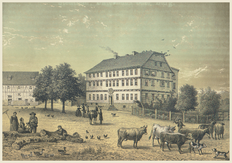 The Lower castle in Stedtfeld.